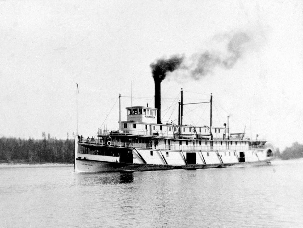 Steamer Kuskanook, underway on Kootenay Lake, 1928.